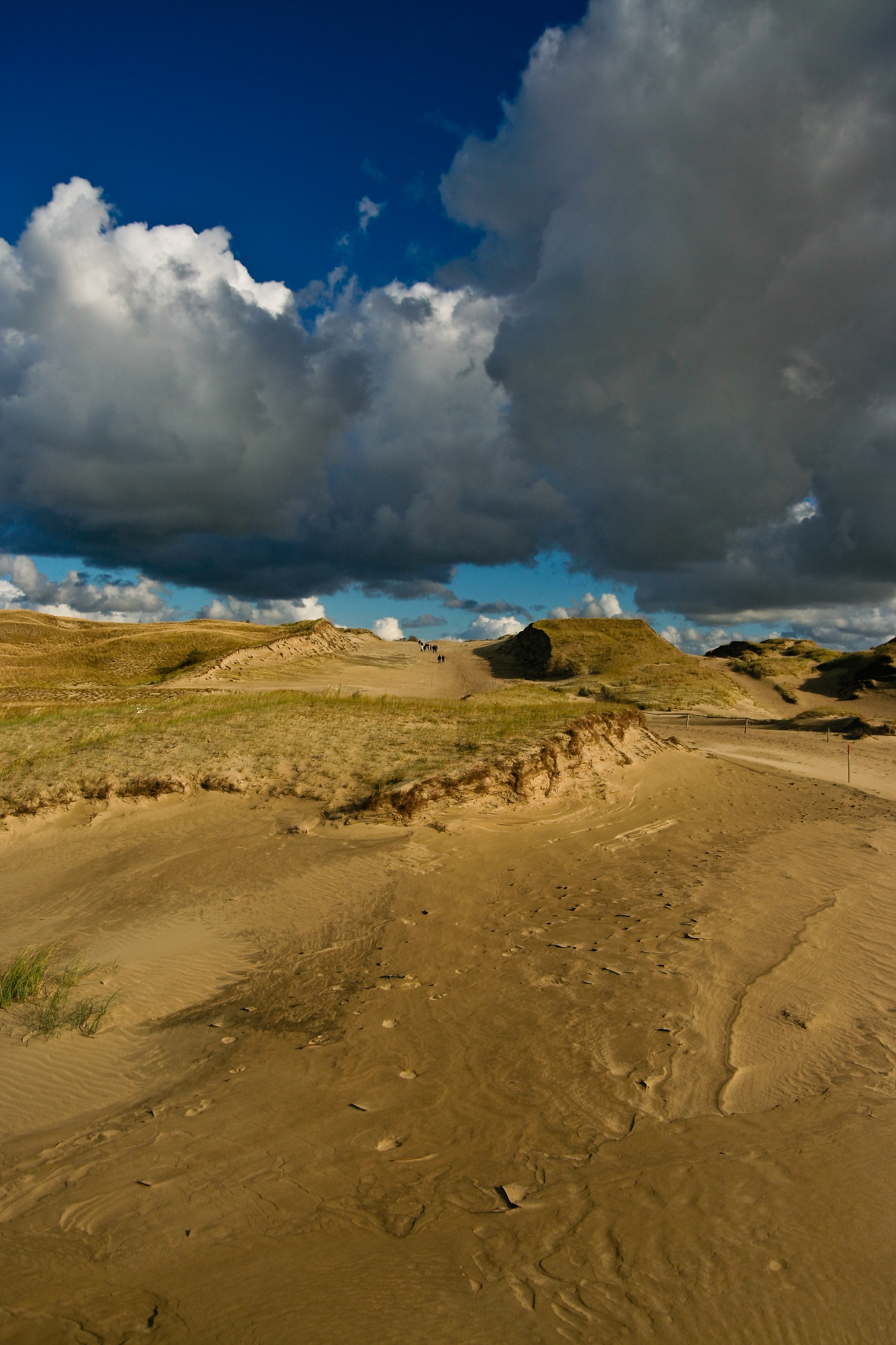 Sand dunes of the Curonian Spit